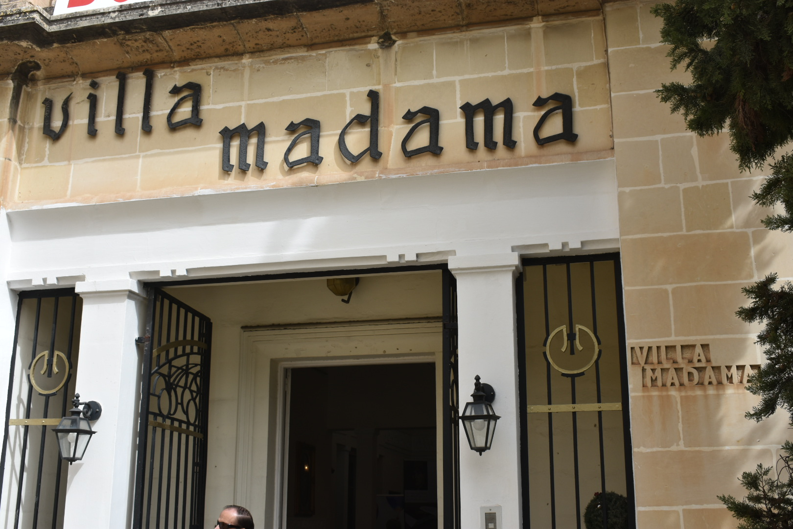 Villa Madama and Melita Gardens